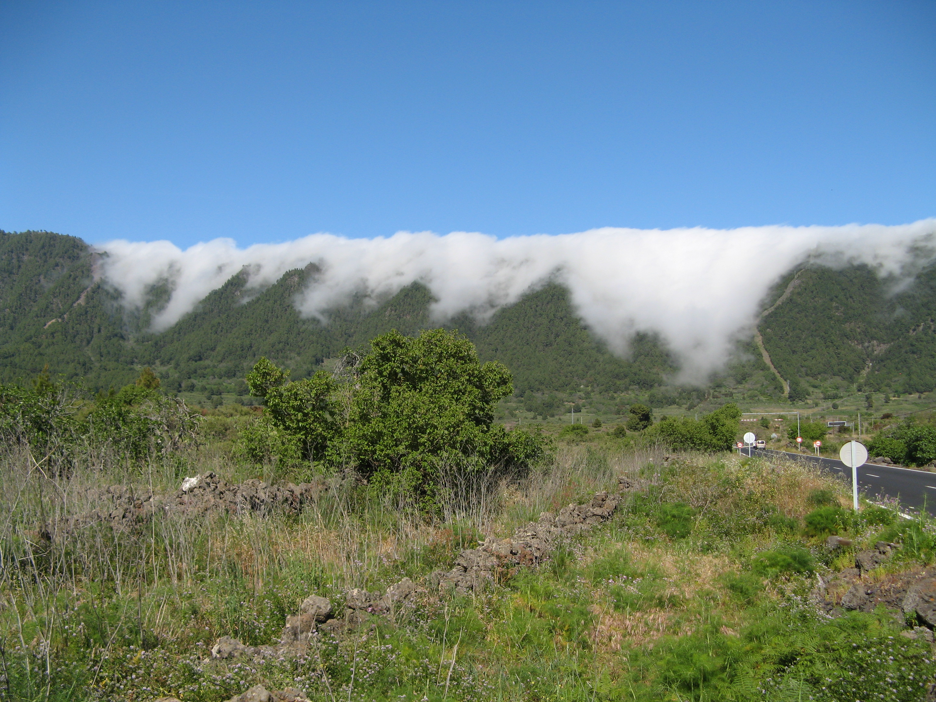 Passat Clouds over the Cumbre Nueva (1.400 m), La Palma